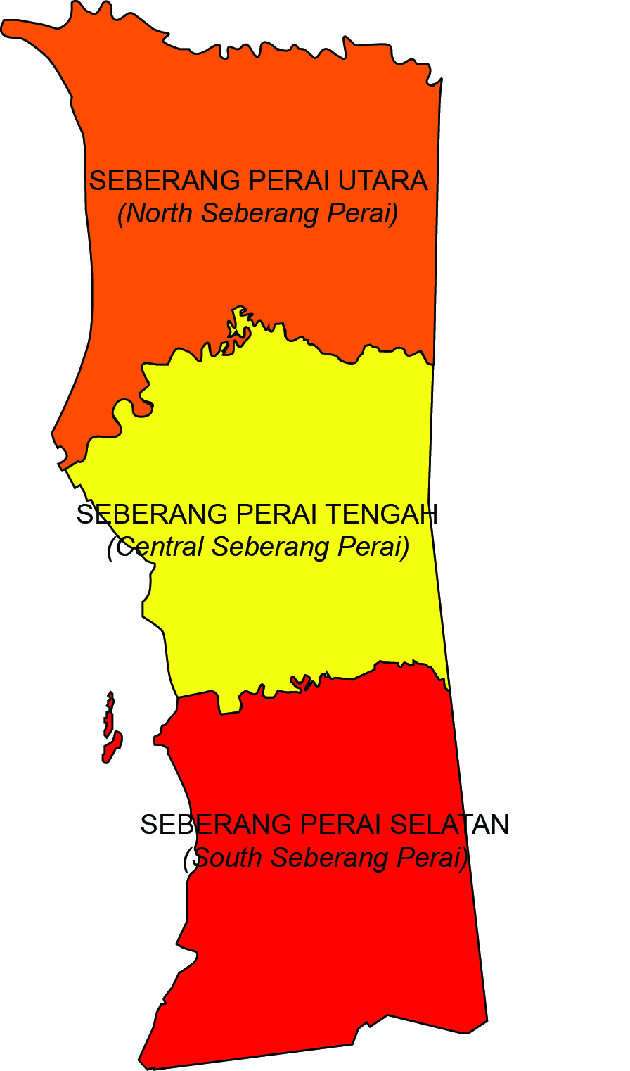 The three districts of Seberang Perai.